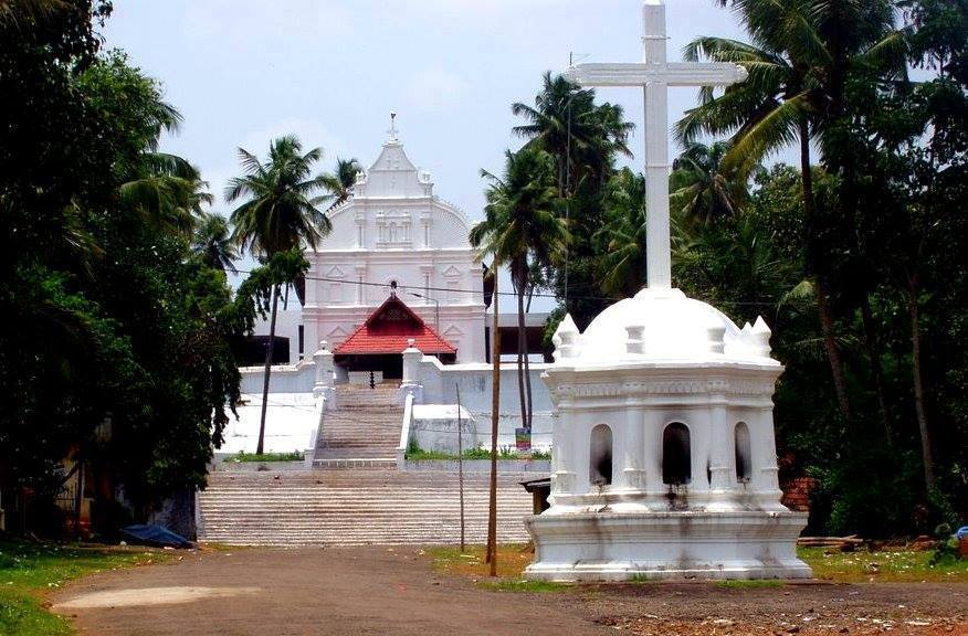 The Wellknown Kadamattom Church